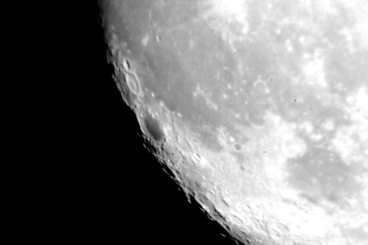 Dark Edge of the Moon